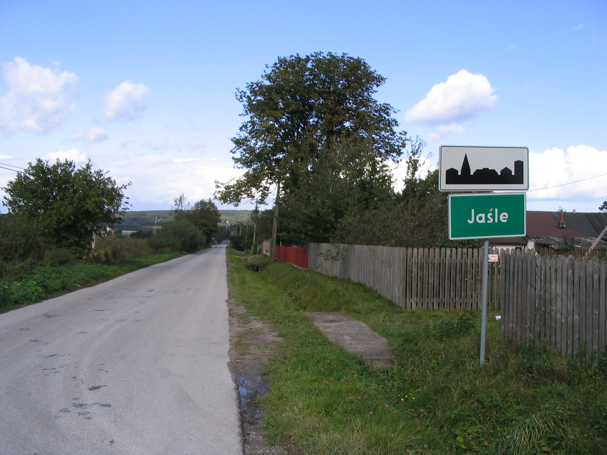 Jaśle village, Poland Aparat/Camera: Canon PowerShot A75